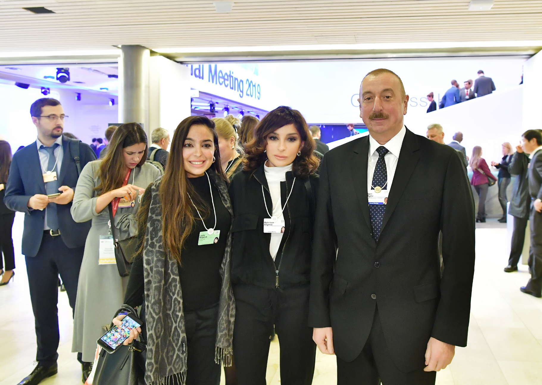 Ilham Aliyev attended Advancing the Belt and Road Initiative China's Trillion Dollar Vision session in Davos